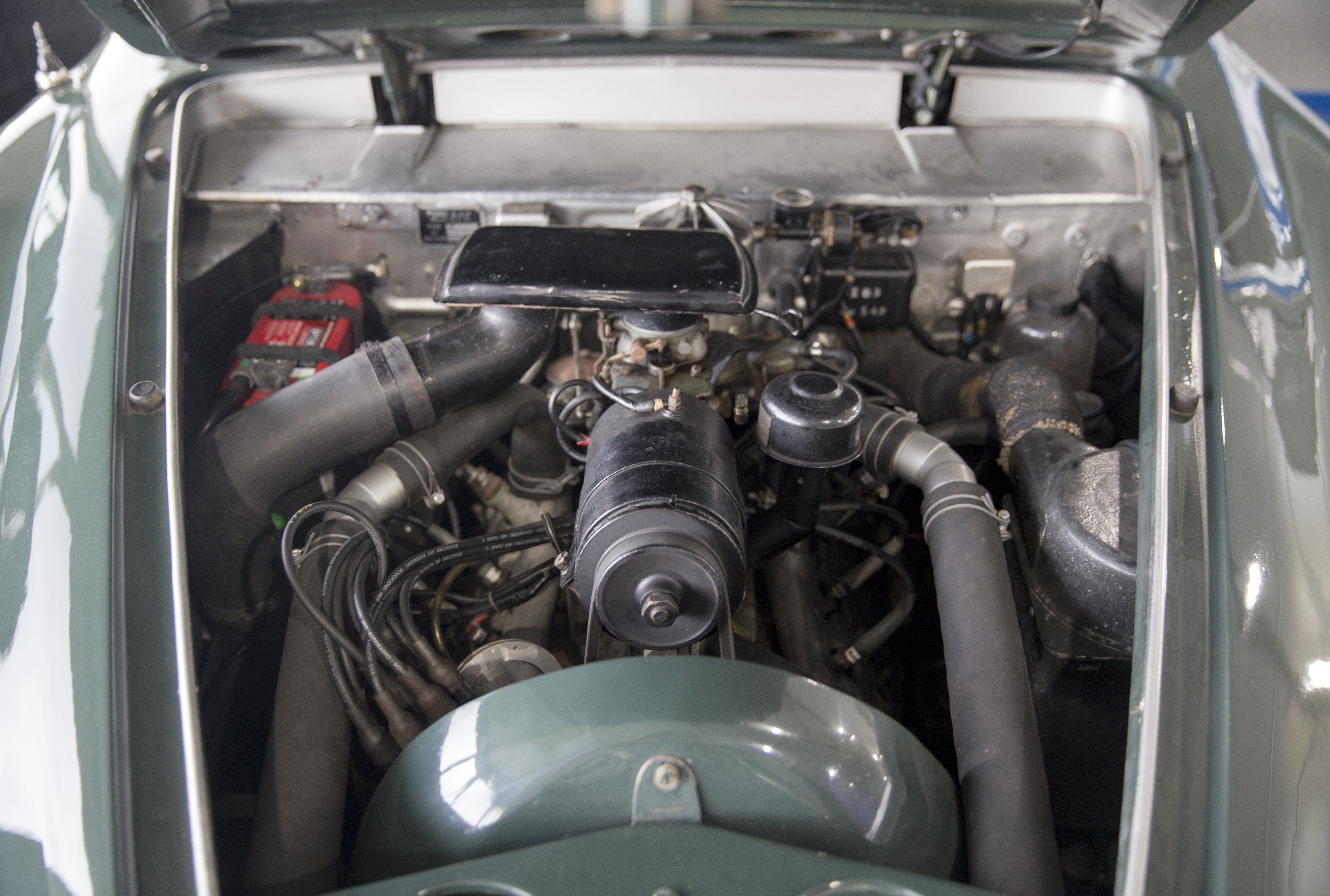 The 2355 cc "Aquilon" flathead V8 engine no 4F22E606523 in a 1953 Ford Comète with Facel Metallon coachwork. Chassis no 1016, sold for 42,560 at the Bonhams Auction attached to the 2019 Greenwich Concours d'Elegance.